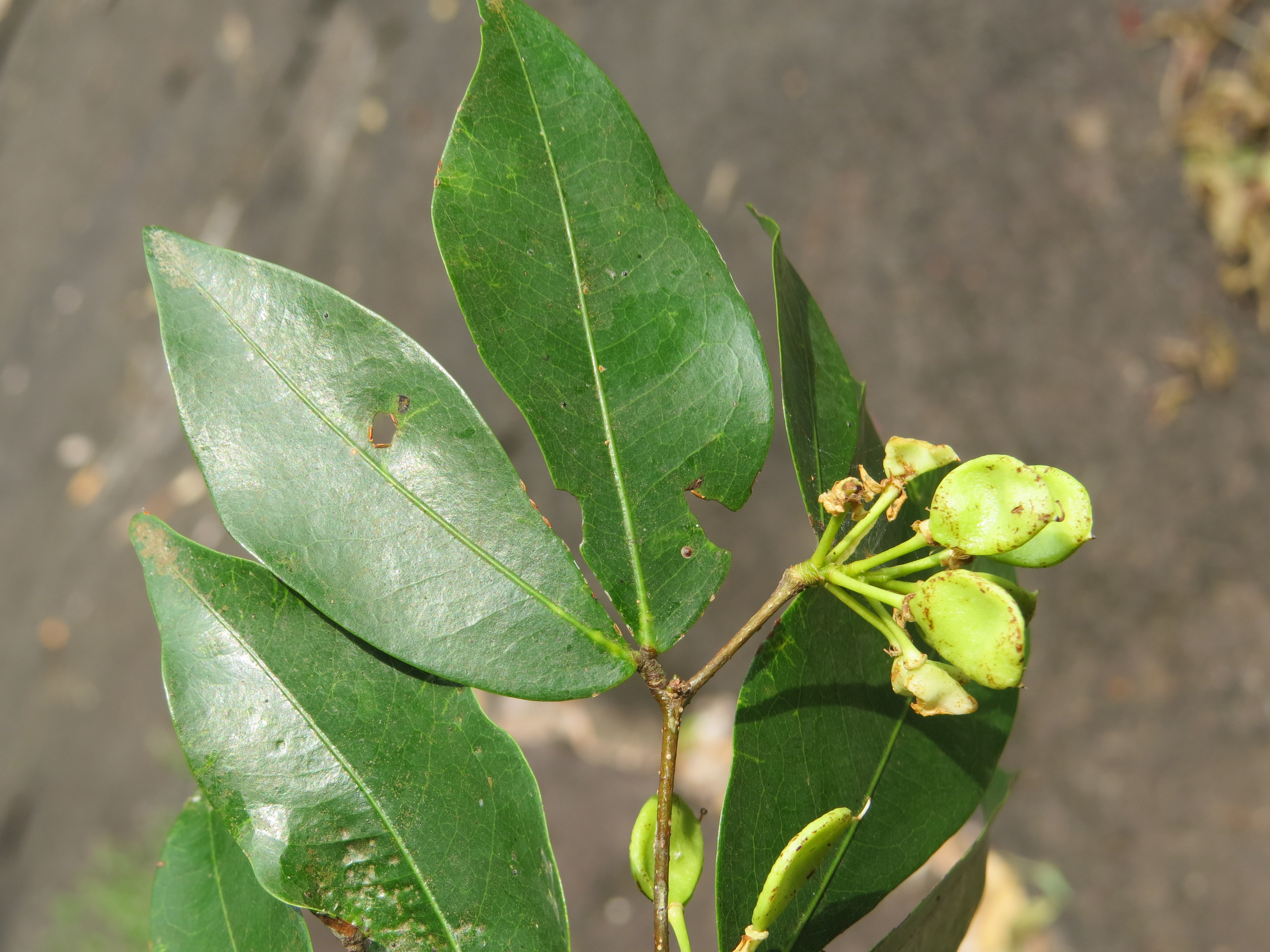 Photos from Iritty - Virajpet roadside